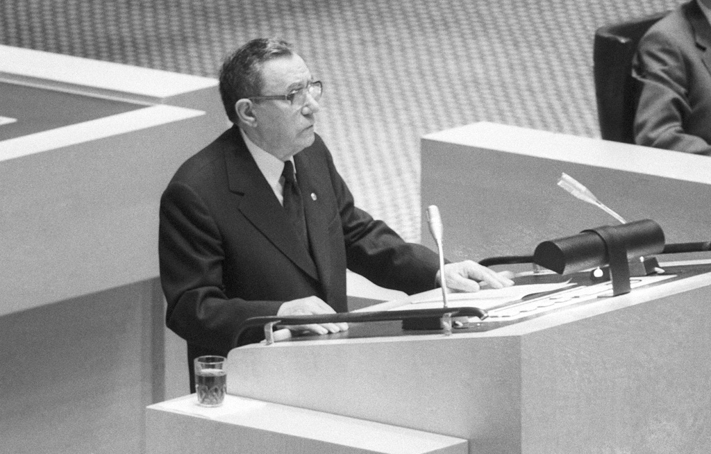 “Andrei Gromyko speaking at the Conference on Security and Cooperation in Europe (CSCE)”. Andrei Gromyko, a member of the CPSU Central Committee Politburo, First Deputy Prime Minister and Foreign Minister, speaking at the Conference on Security and Cooperation in Europe (CSCE) in Stockholm in 1984.